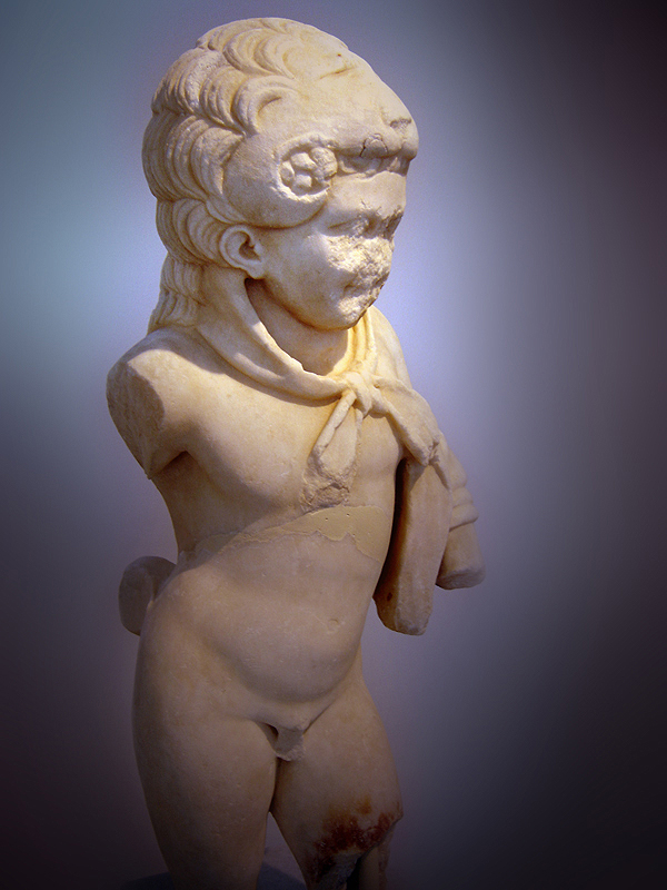 Infant Hercules. National Archaeological Museum, Athens.